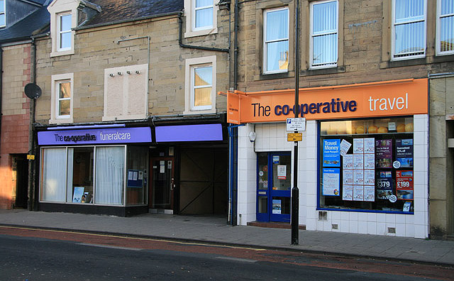 Consumer co-operative premises in Channel Street, Galashiels. The Co-operative Group shopfronts, formerly outlets of Lothian, Borders & Angus Co-operative Society. This is an interesting juxtaposition of premises with, on the right, The Co-operative Travel for a two way ticket to a destination of your choice, and on the left, The Co-operative Funeralcare for a one way ticket to your final destination.